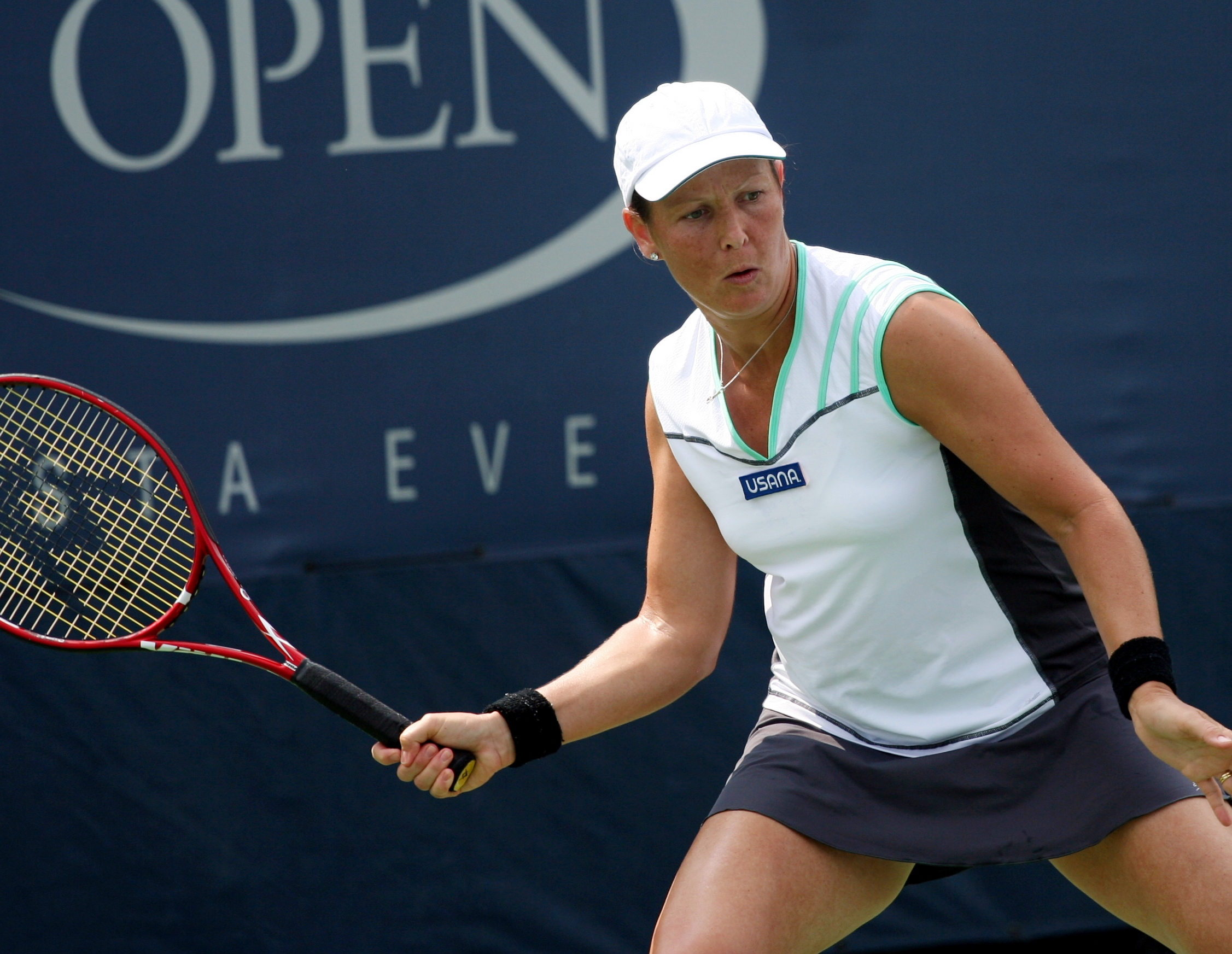 At Flushing Meadows.